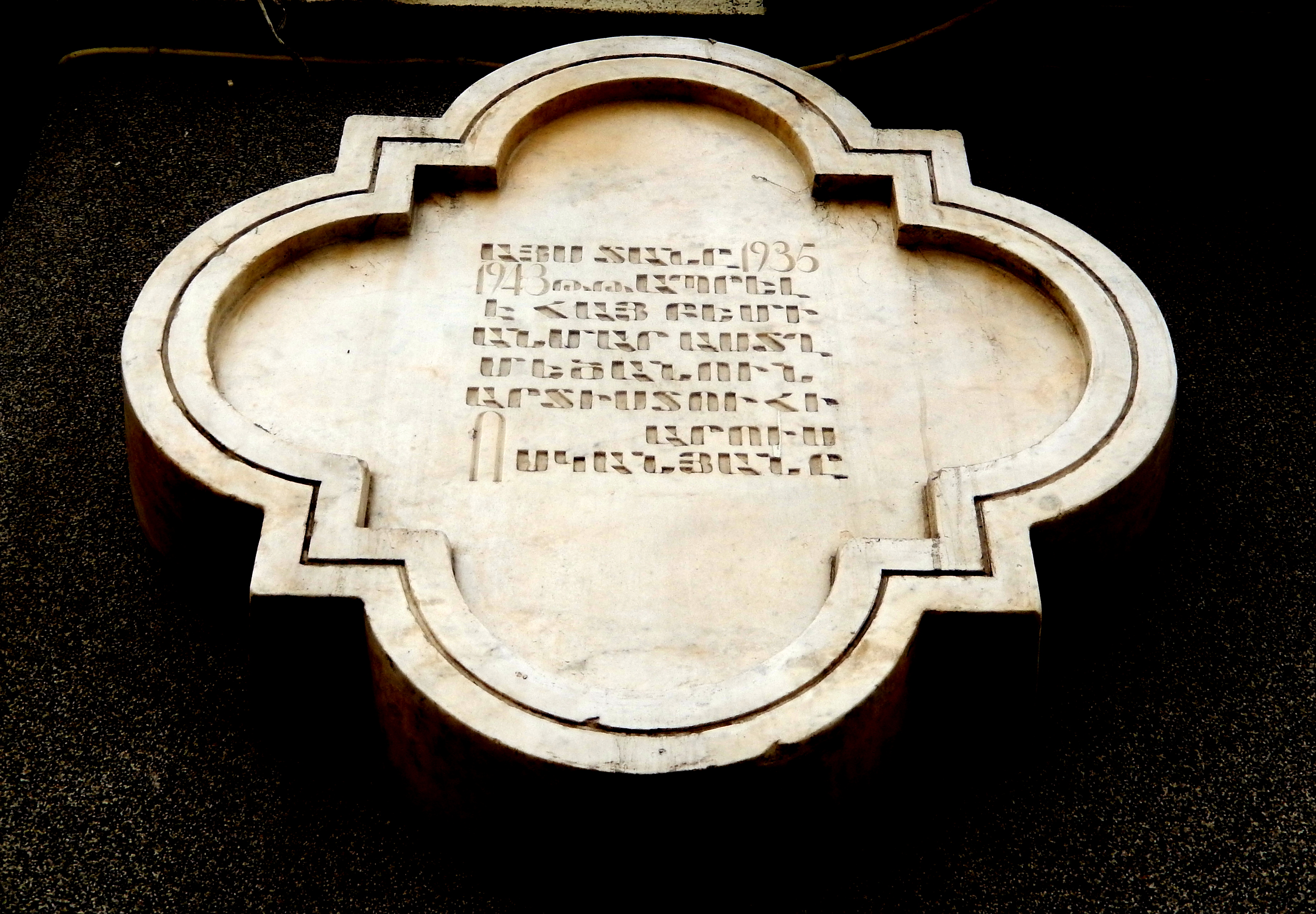 Plaque for Arous Voskanyan on Hanrapetutyan street, Yerevan